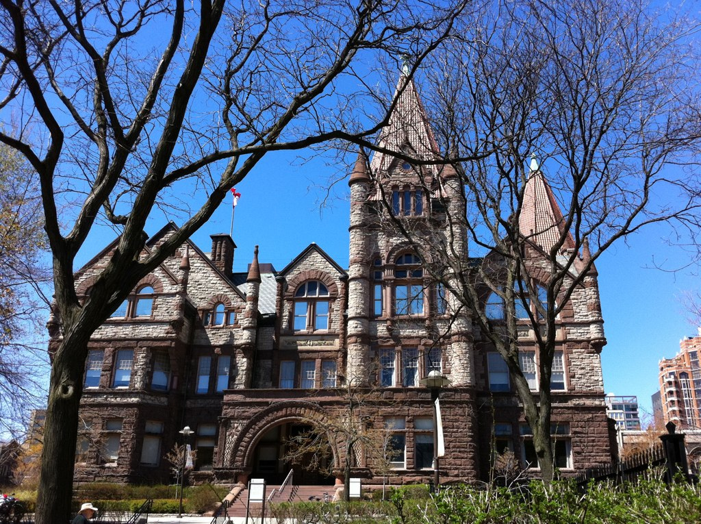 Old Vic, Victoria College, University of Toronto